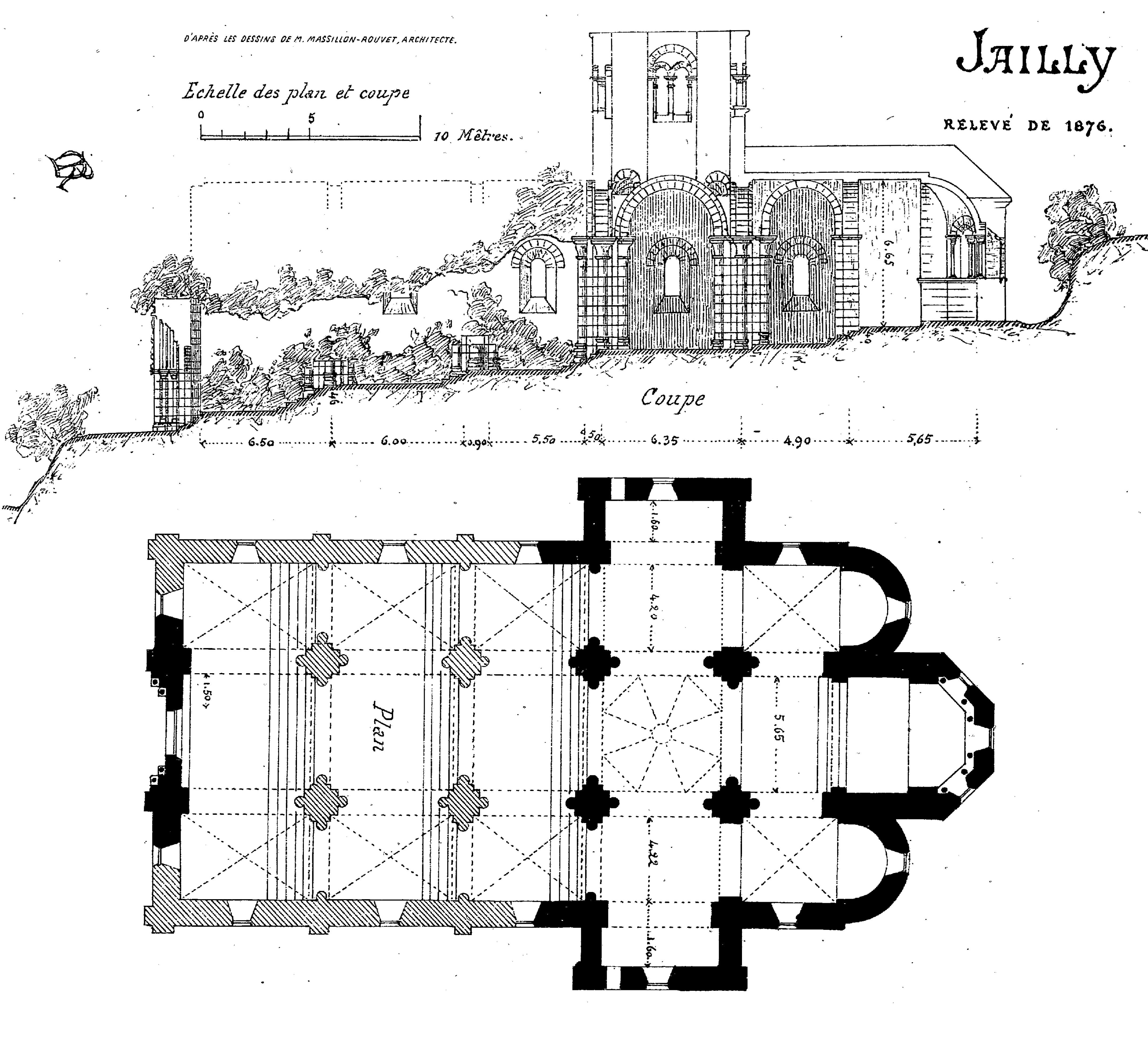 Drawing from the study conducted in 1876 by Mr. Rouvet-Massillon, Architect, representative of the Academic Society of Nivernais, the Church of Jailly the architectural point of view